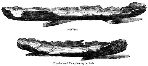 Ancient British hollowed tree canoe obtained from